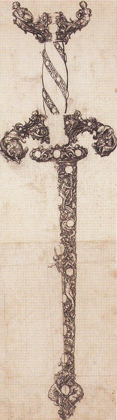 Design for a Ceremonial Dagger. Brush drawing in black ink on paper, 45.5 × 12.6 cm, British Museum, London. Hans Holbein appears to have designed weapons as part of his responsibilities as the King's Painter of Henry VIII. This design is for a baselard, an ornamental dagger worn suspended from a girdle. It is the only surviving design by Holbein for a complete weapon (Foister, p. 88).